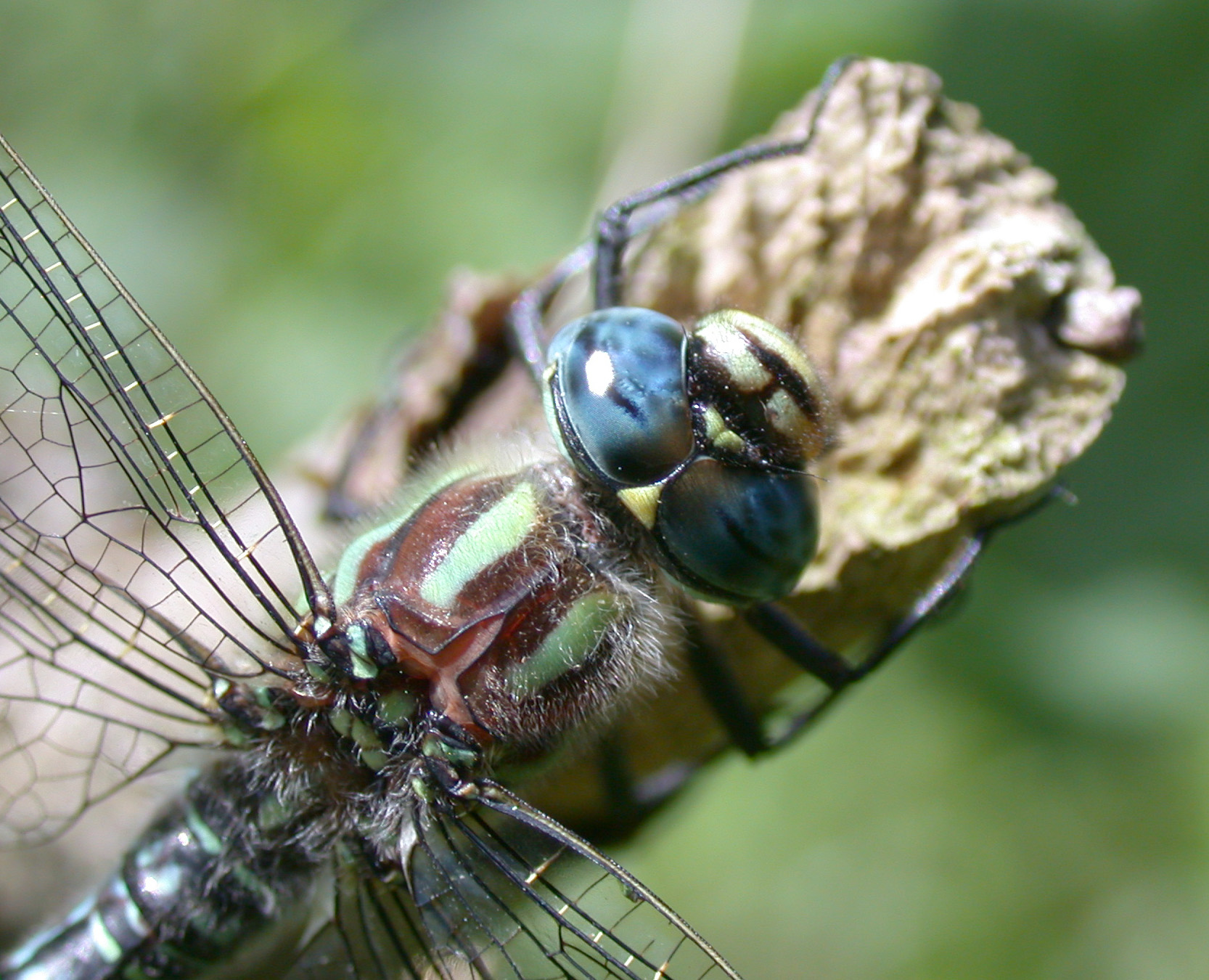 Bracytron pratense head